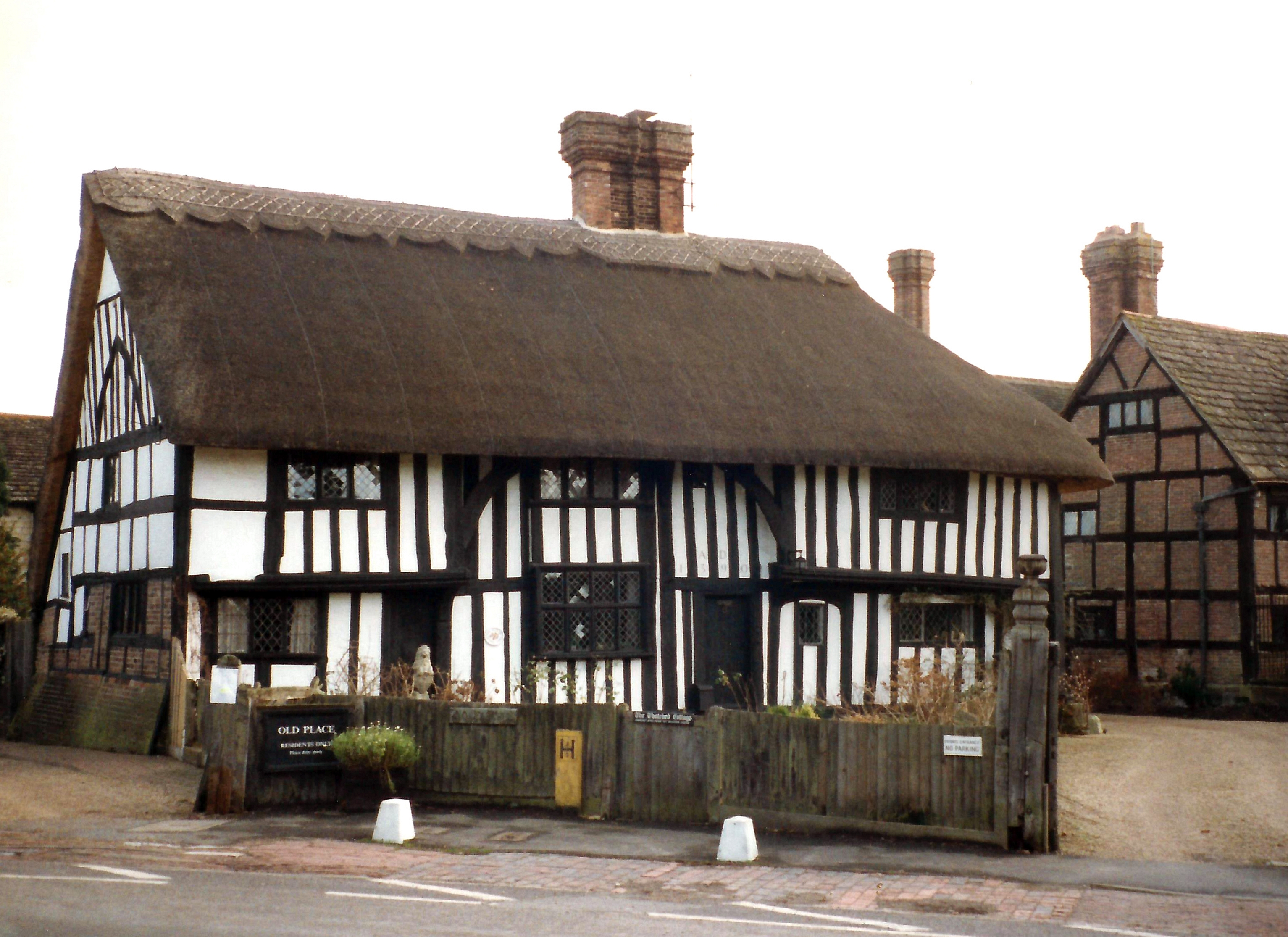 Grade II* listed 16th century thatched cottage, Lindfield, West Sussex